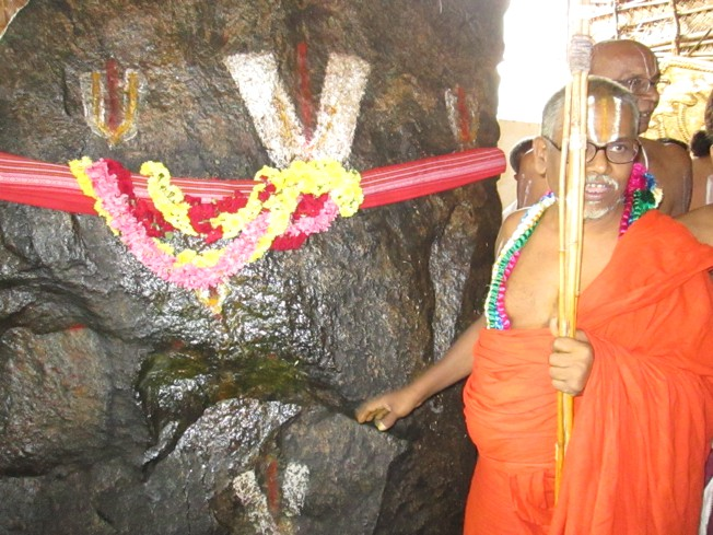 His Highness 46th Jeeyar Sri Satakopa Sri Ranganatha Yateendra Mahadesikan of AHOBILA MUTT visit to the temple